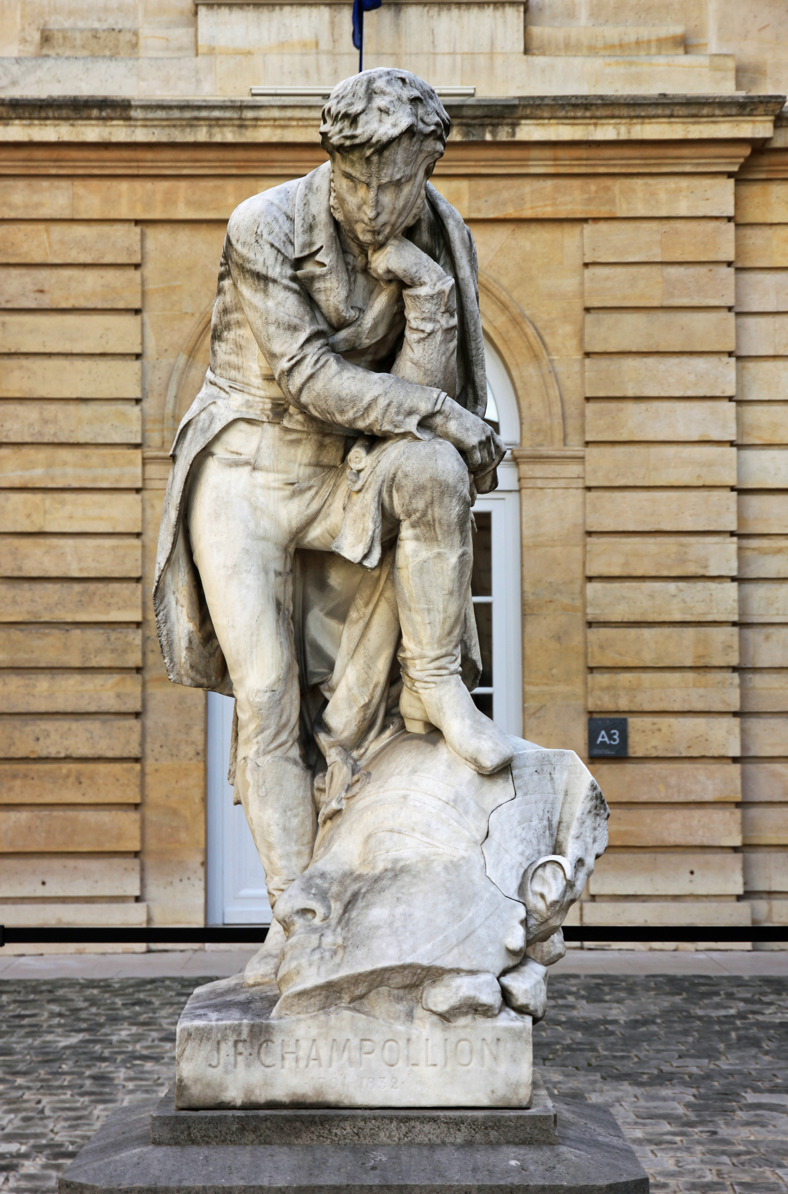 Statue of Jean-François Champollion (1790-1832), by Frédéric Auguste Bartholdi (1834-1904) (marble, 1875), Collège de France courtyard, Paris.